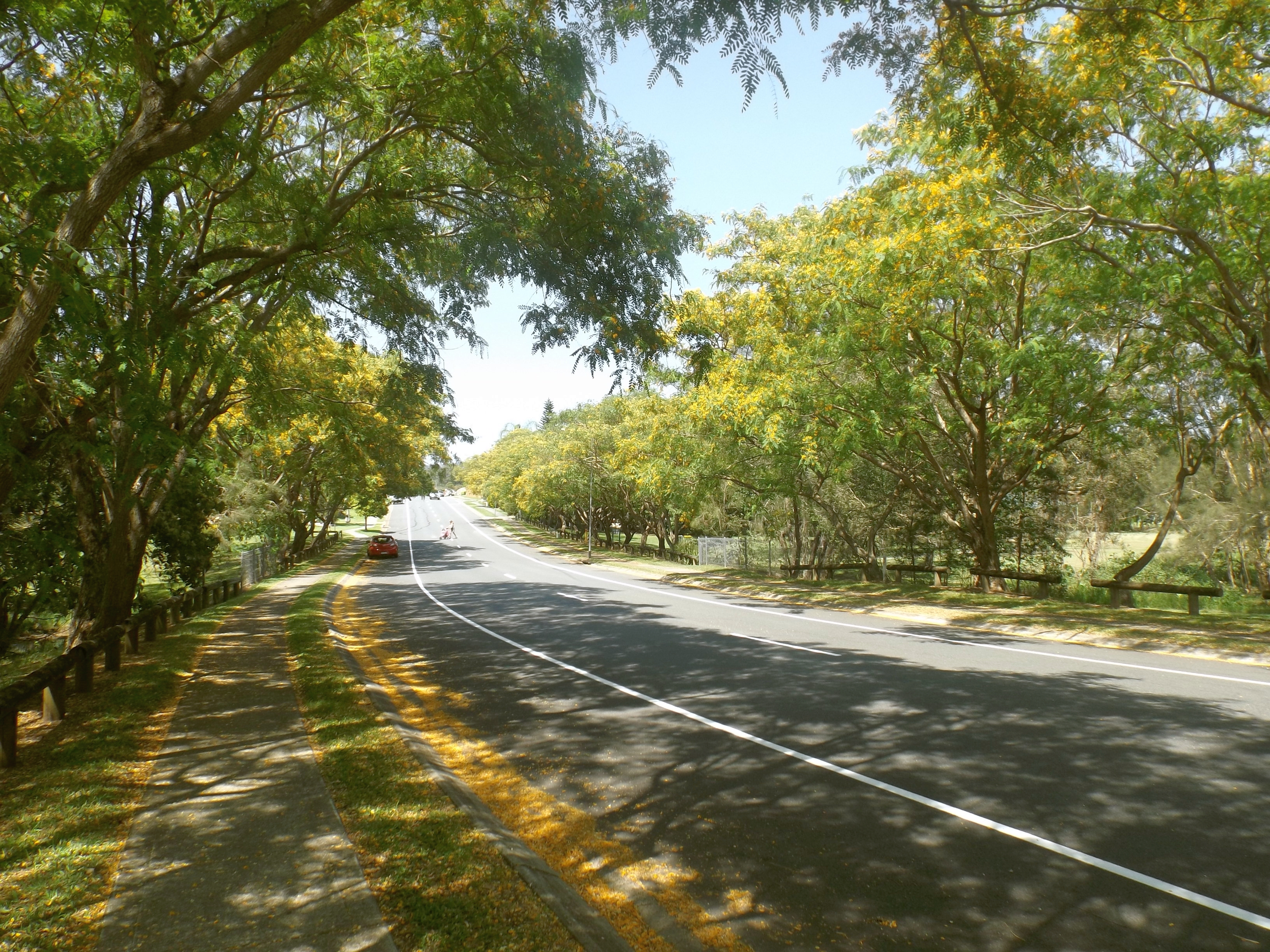 Photo of Hickey Way at Carrara, Gold Coast City, Queensland, Australia.